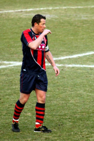 Eric Deflandre (FC Liège) during FC Liège - RFC Huy in january 2011